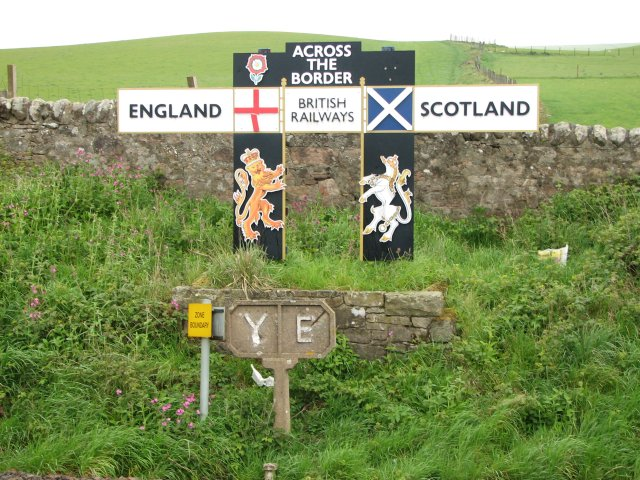 England / Scotland border British Railways sign board by the east coast mainline, marking the border. Hard to spot from a fast moving train.